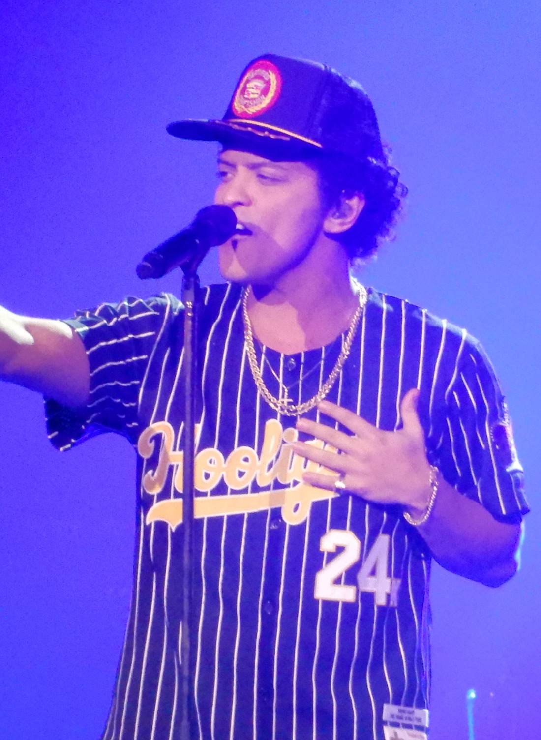 This is a photo of American entertainer Bruno Mars performing live during his 24K Magic World Tour